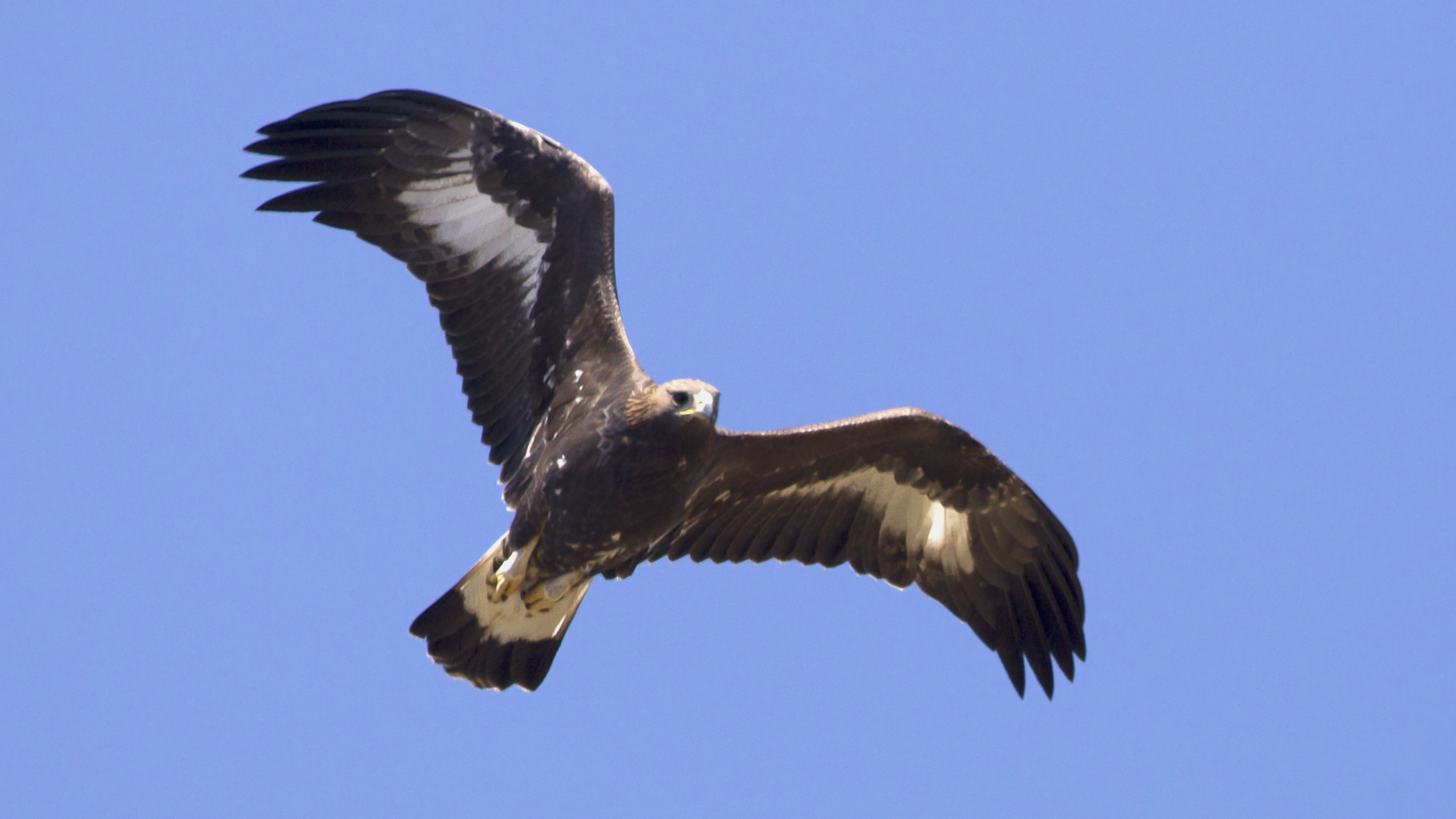 Golden Eagle